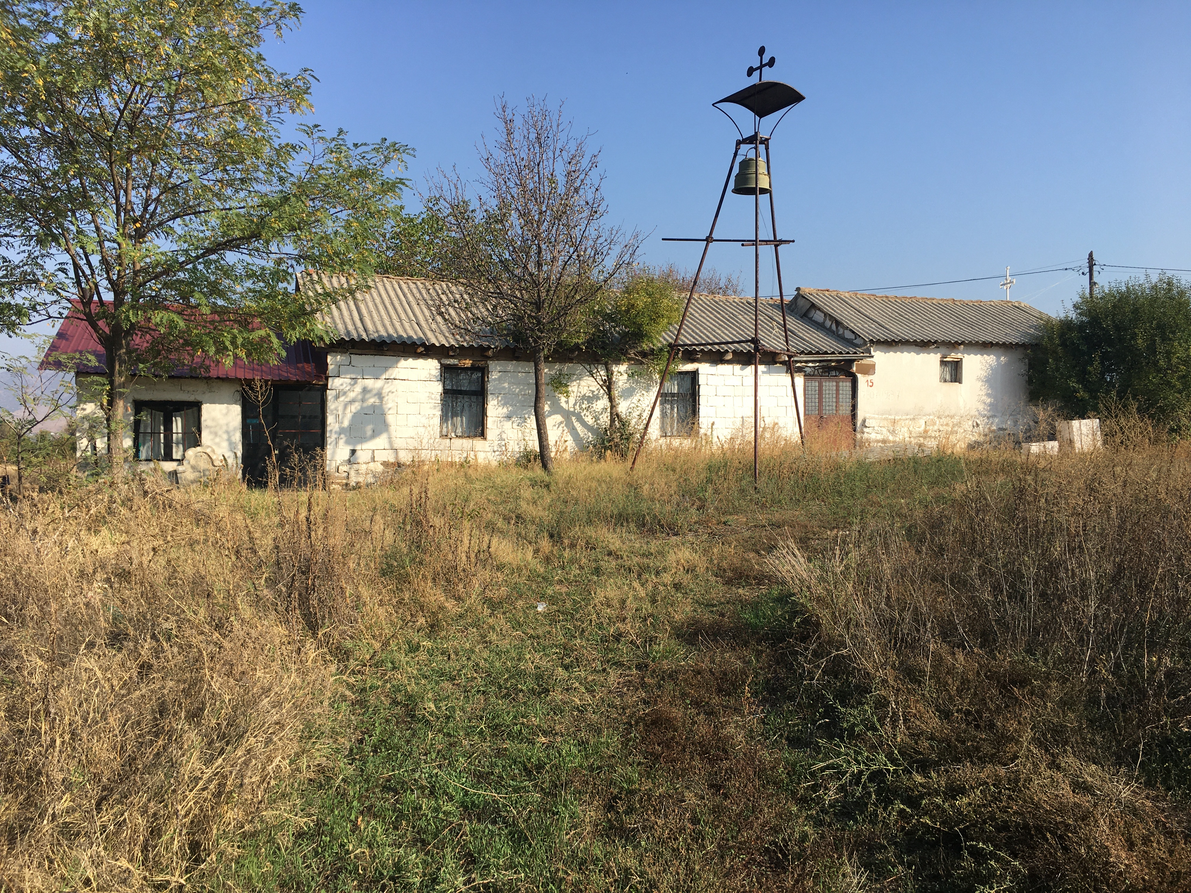 St. Athanasius Church in the village of Zabrčani